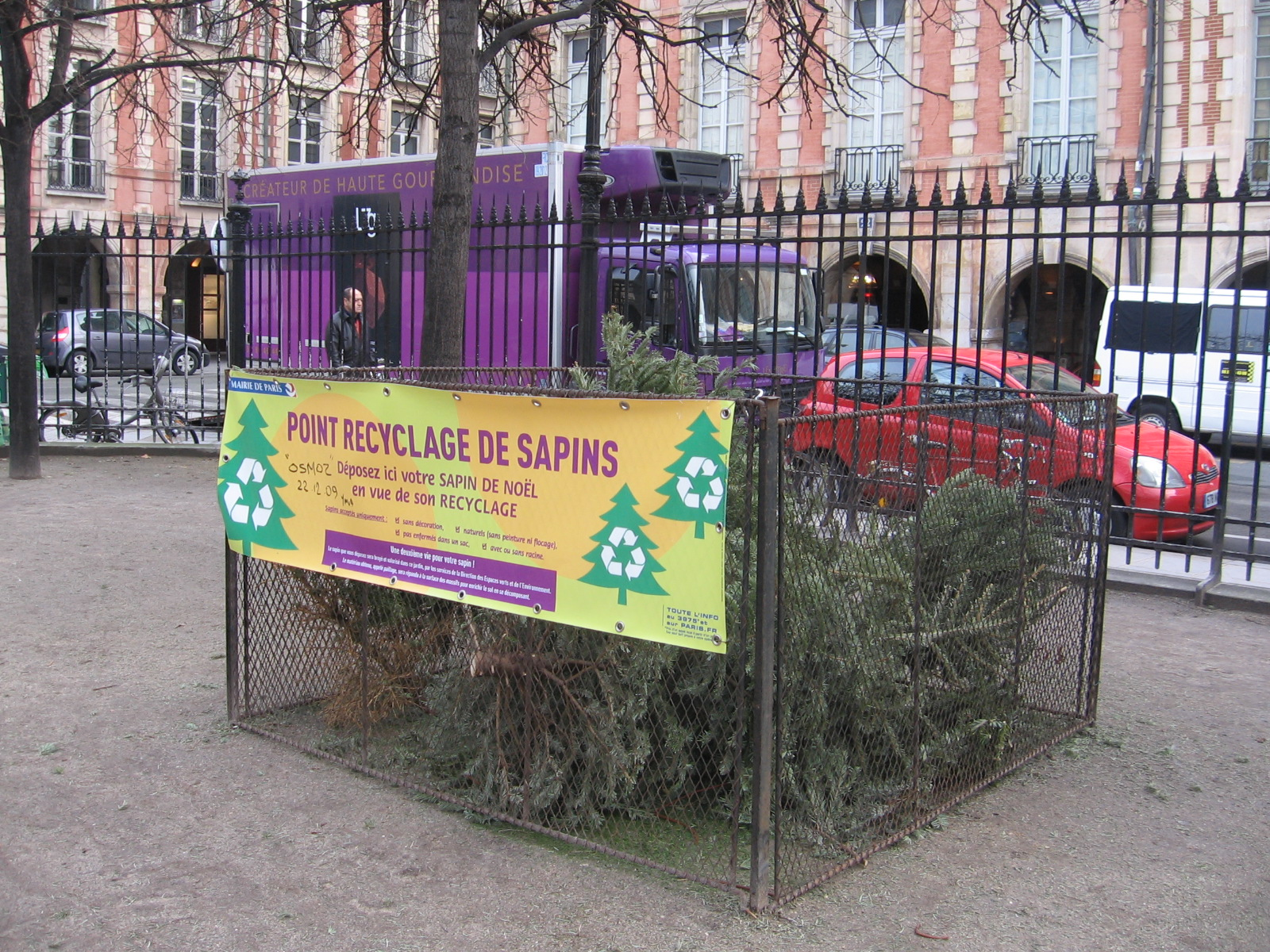 Christmas Tree recycling bin in Place des Vosges (Paris, France).